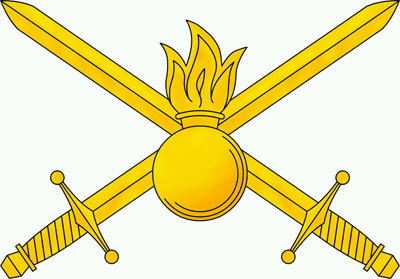 Emblem, small design / collar patch; here: armed forces branch Army «Ground Forces / Motorised RiflesTroops of the Russian Federation».